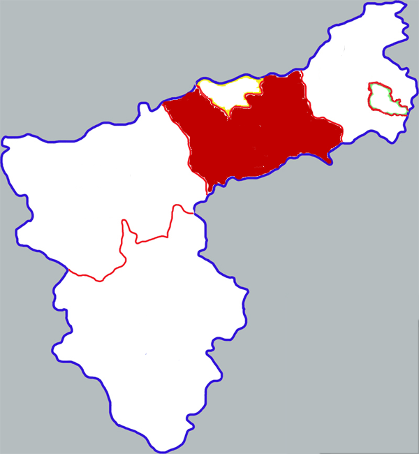 Location of Shanzhou district in Sanmenxia city, China